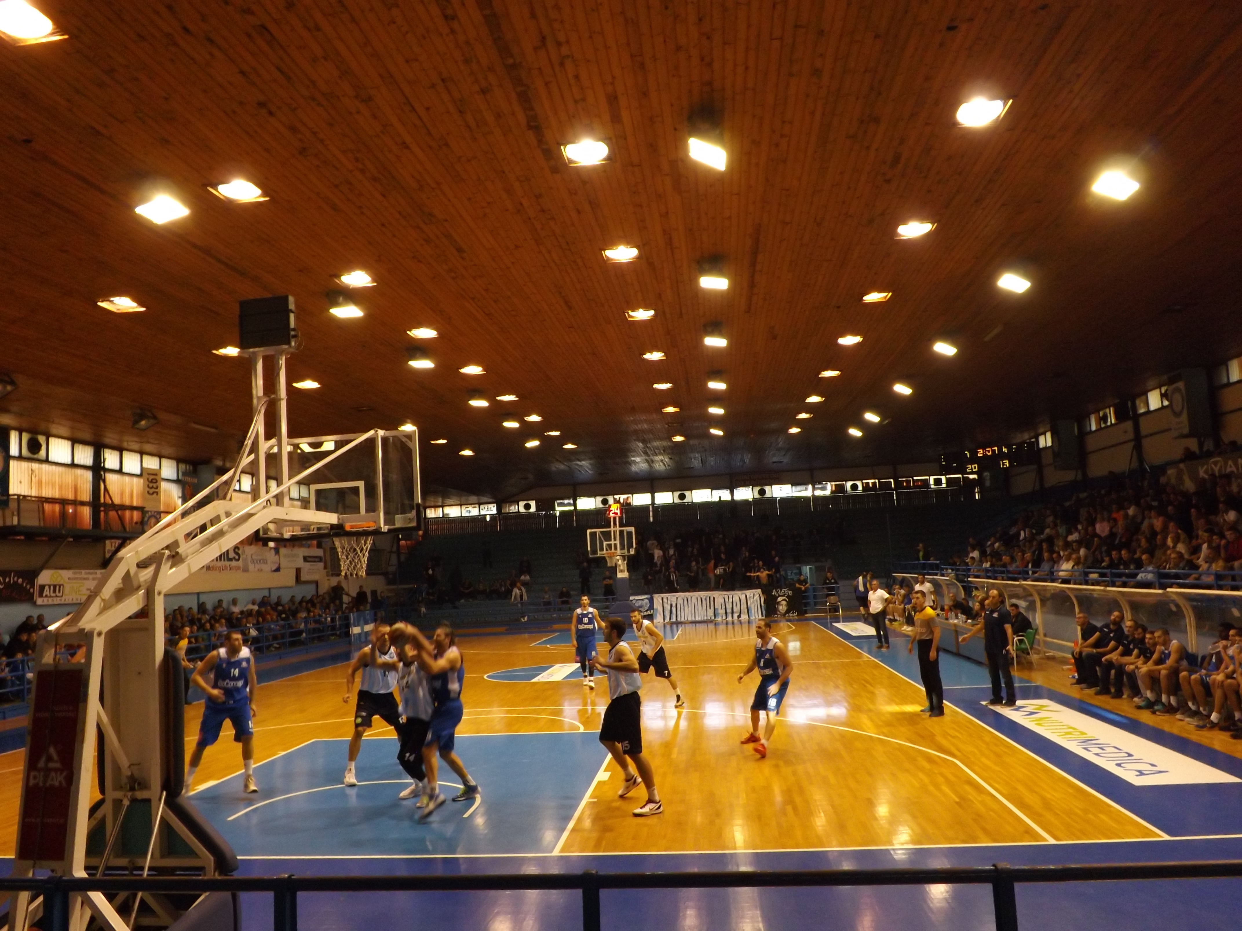 Iraklis Thessaloniki playing in Ivanofeio against Cholargos for the 2016–17 Greek A2 season opener on 8 October 2016.